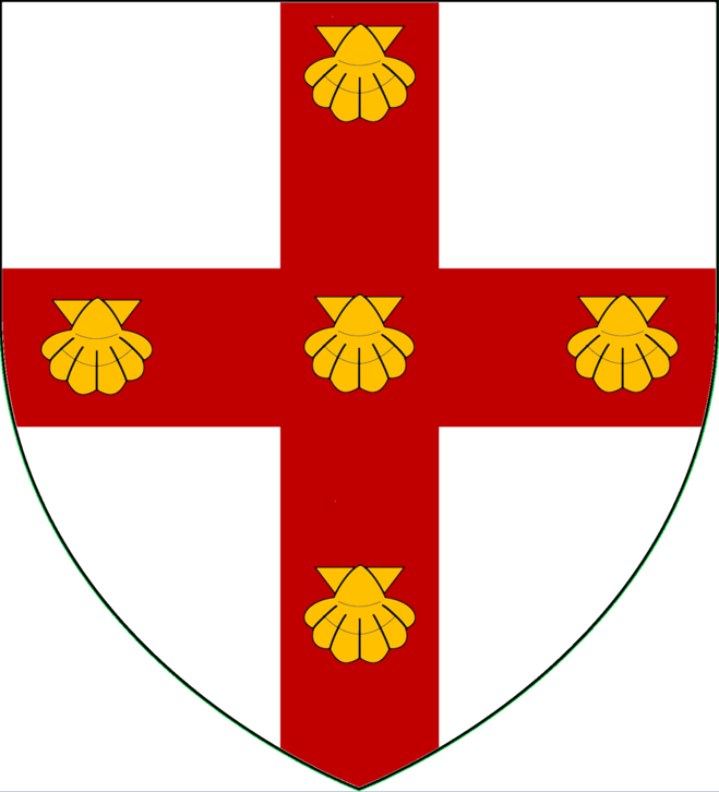 Argent, on a cross Gules five escallops Or.